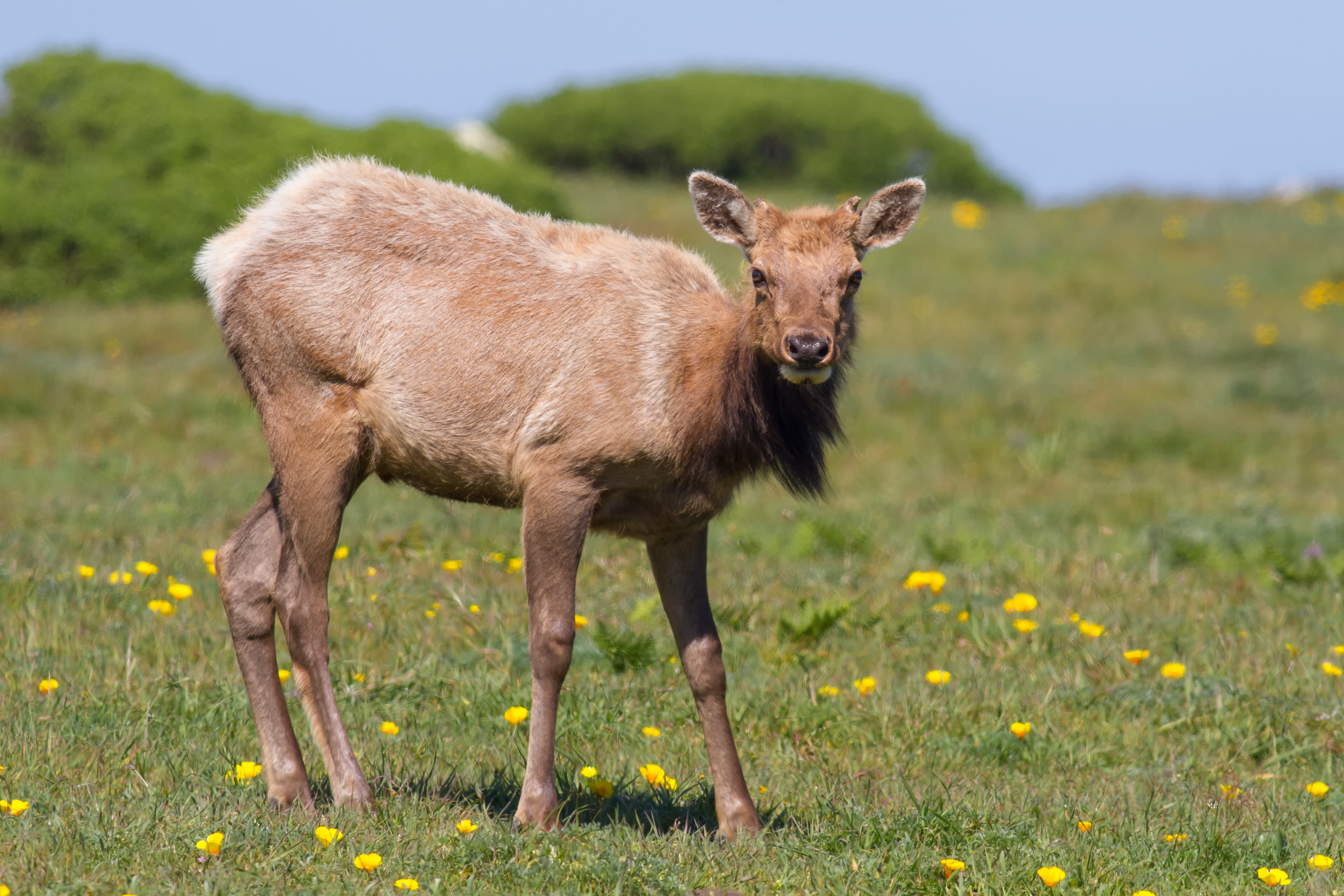 Juvenile male tule elk (Cervus canadensis nannodes) near Tomales Point, Point Reyes National Seashore, California.